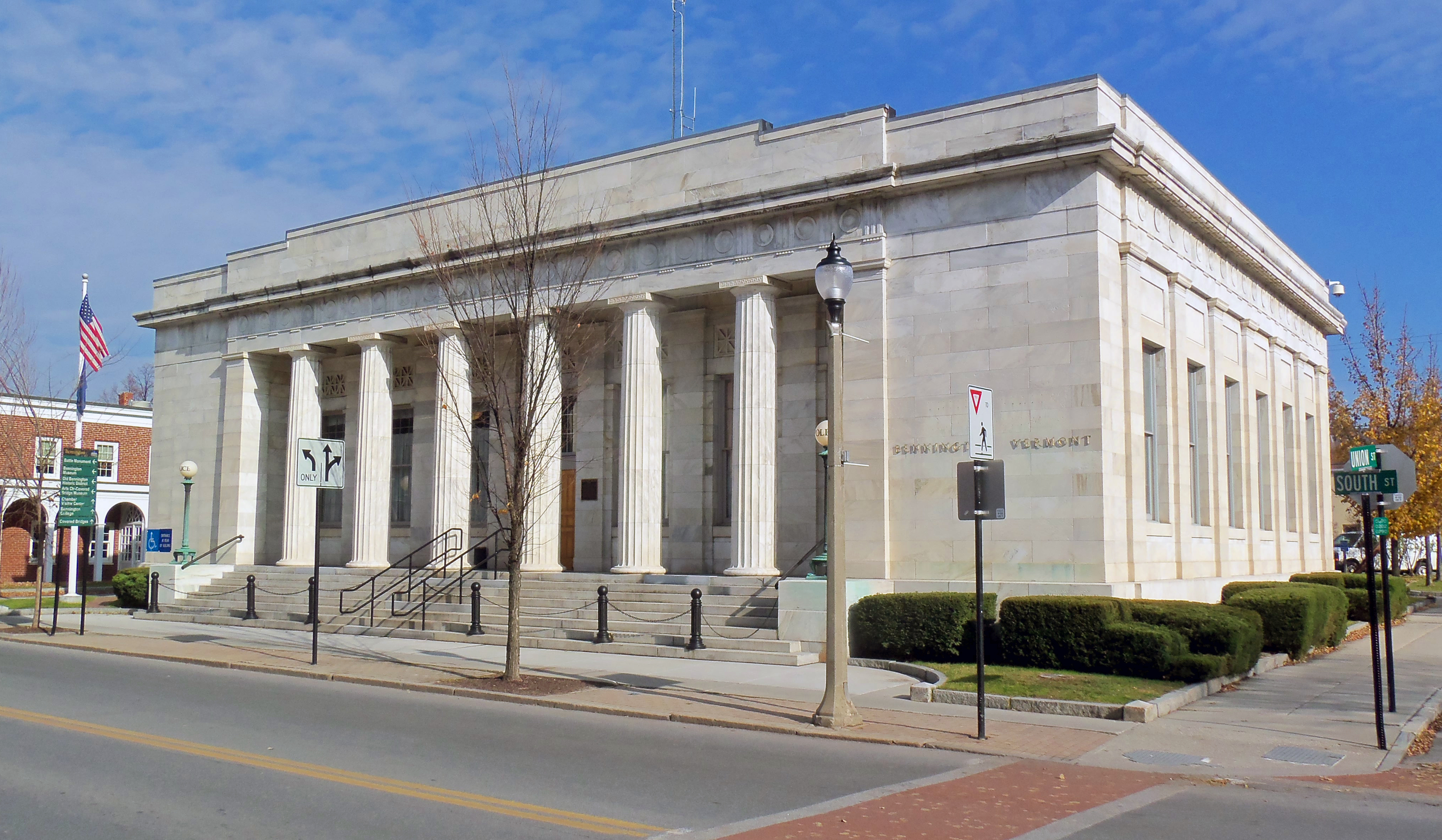 Former post office, Bennington, VT, USA